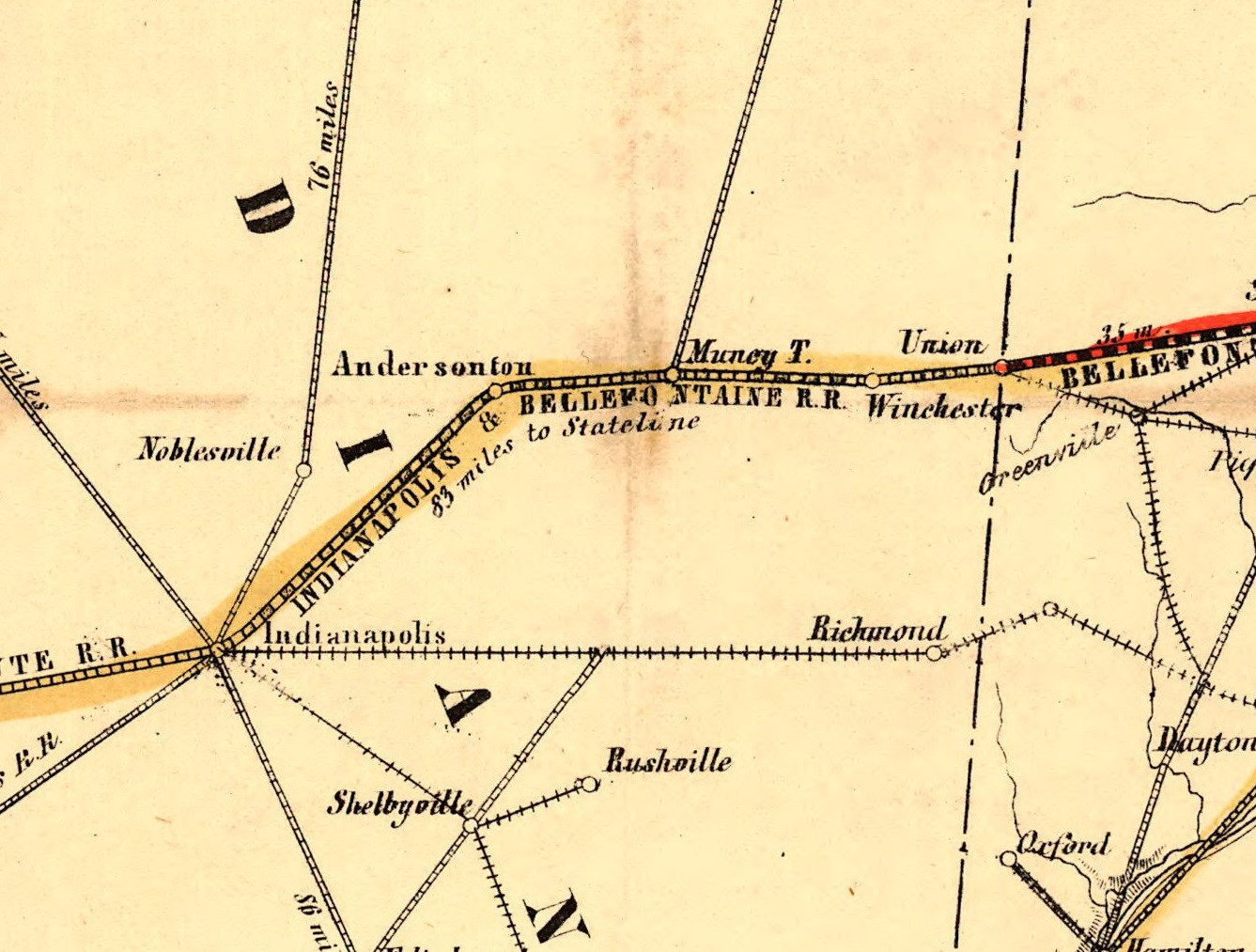 1852 map of the Indianapolis and Bellefontaine Railroad in the state of Indiana in the United States. The map shows connecting railways.